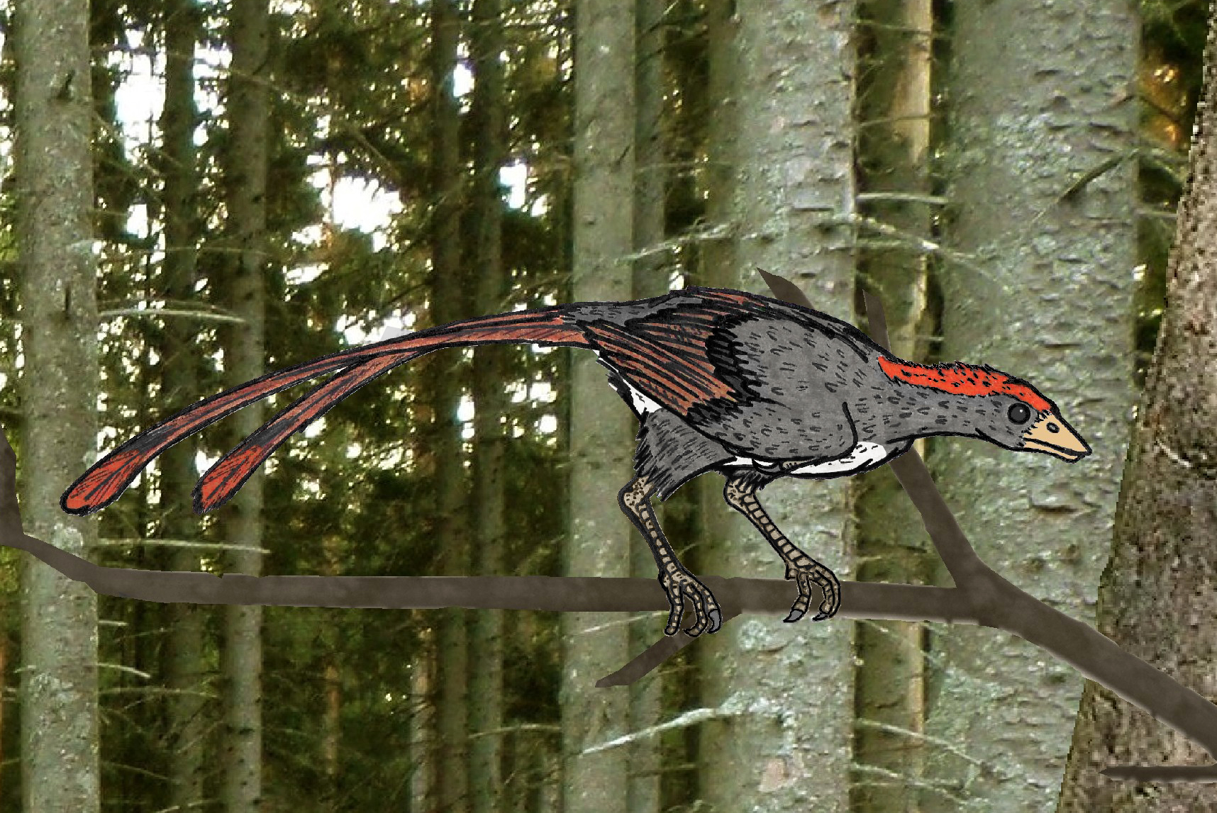 Illustration of Confuciusornis, an extinct bird from eastern China, here depicted with a forest background.